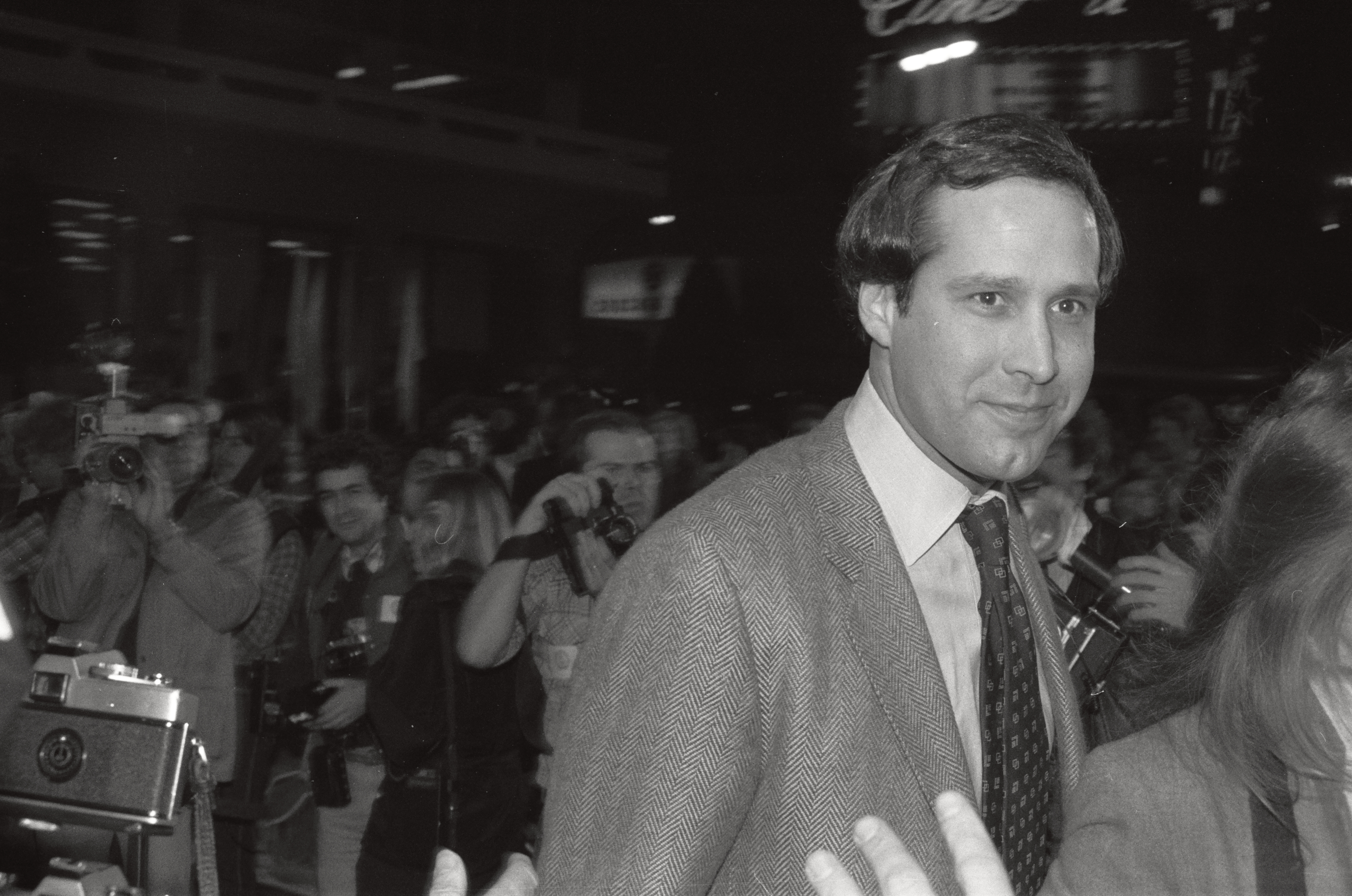 Chevy Chase at the premiere of the movie Seems Like Old Timeschevychase-2